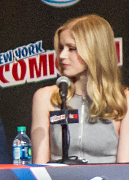 Erin Moriarty at the panel for Jessica Jones at the 2015 New York Comic Con.